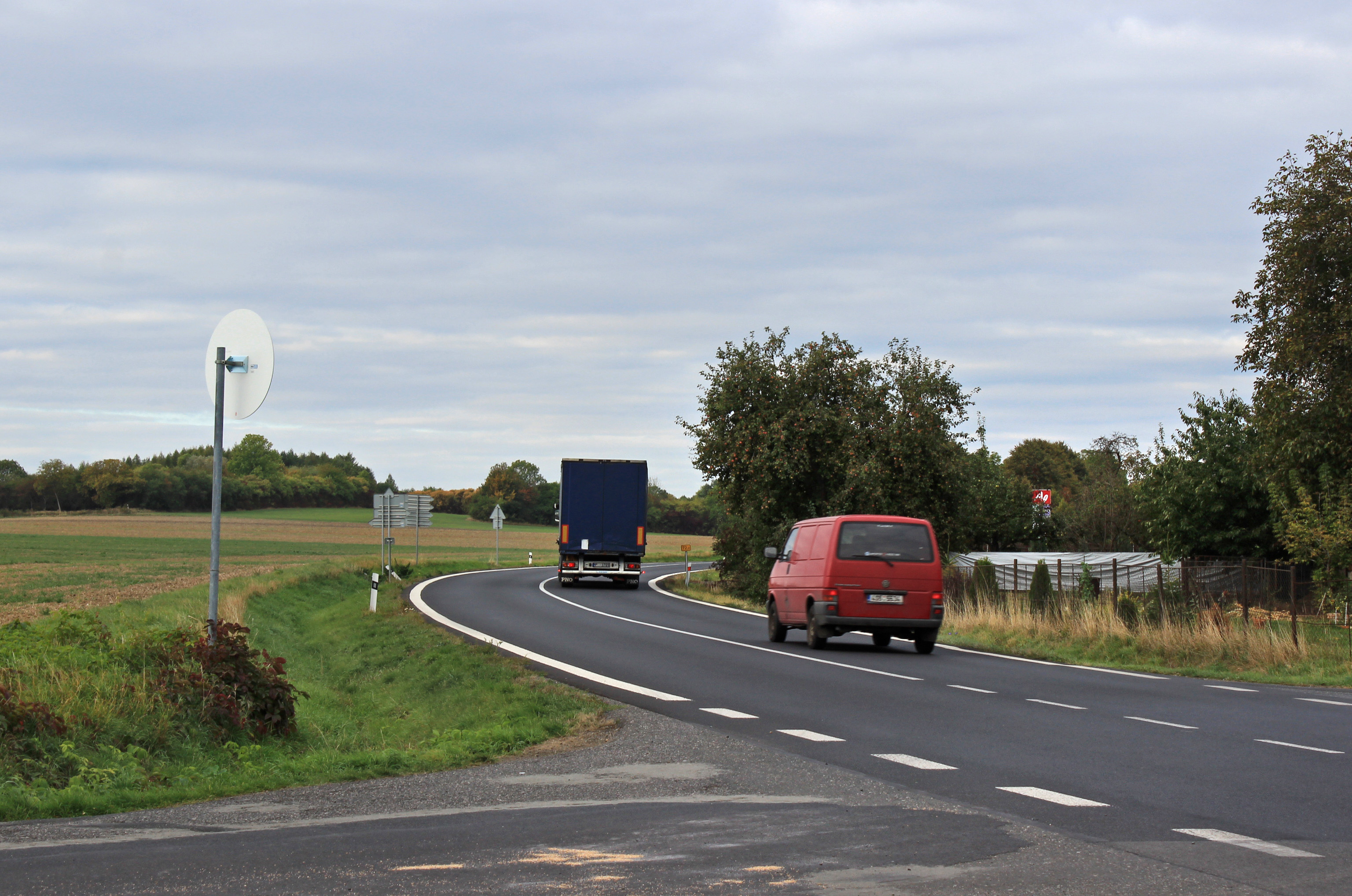 Road No 16 in Mělnické Vtelno, Czech Republic.